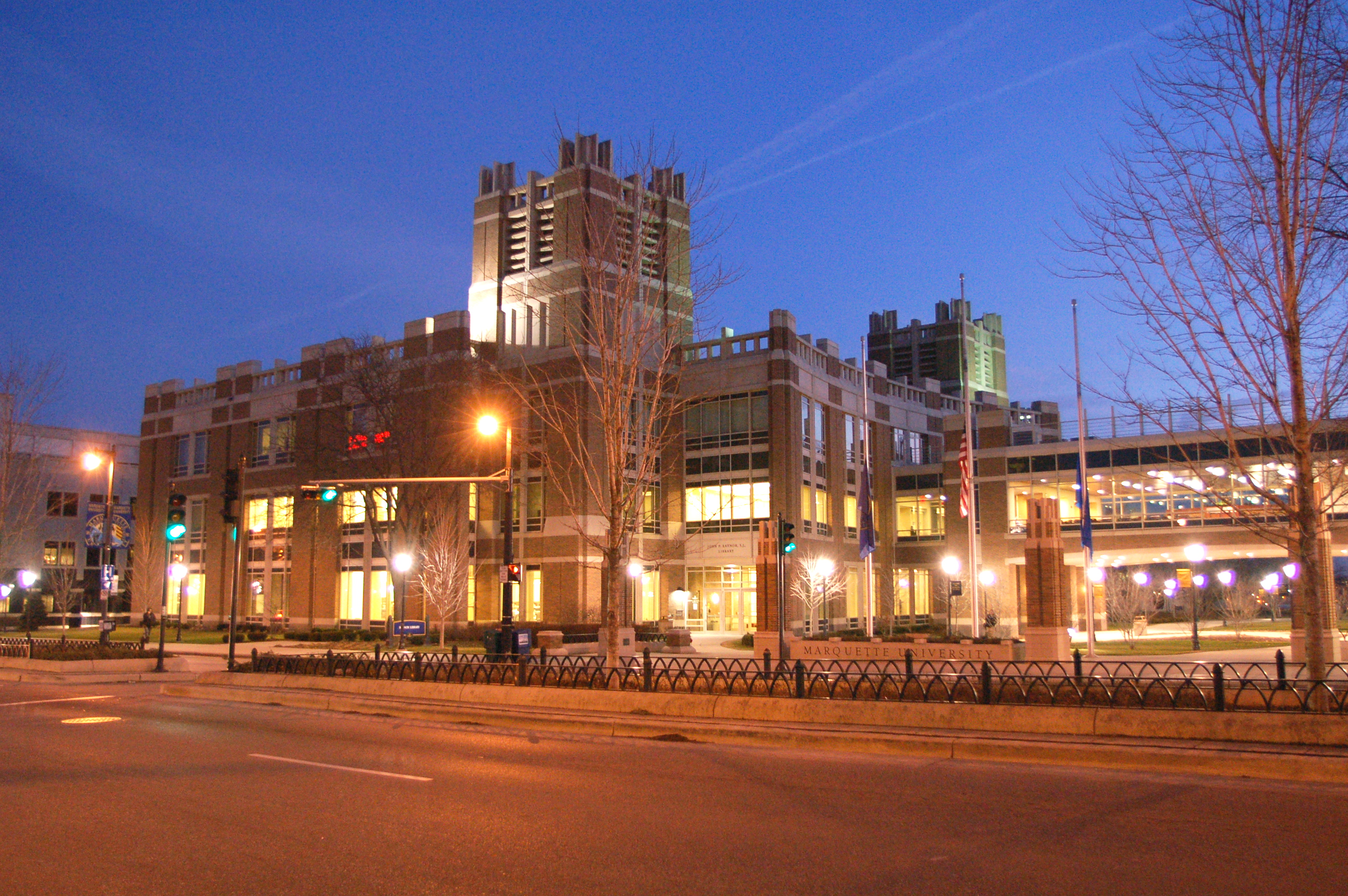 Raynor Library on the campus of Marquette University